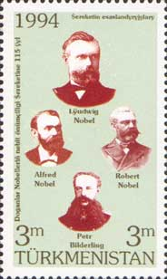 115th Anniversary of Nobel Partnership to Exploit Black Oil.